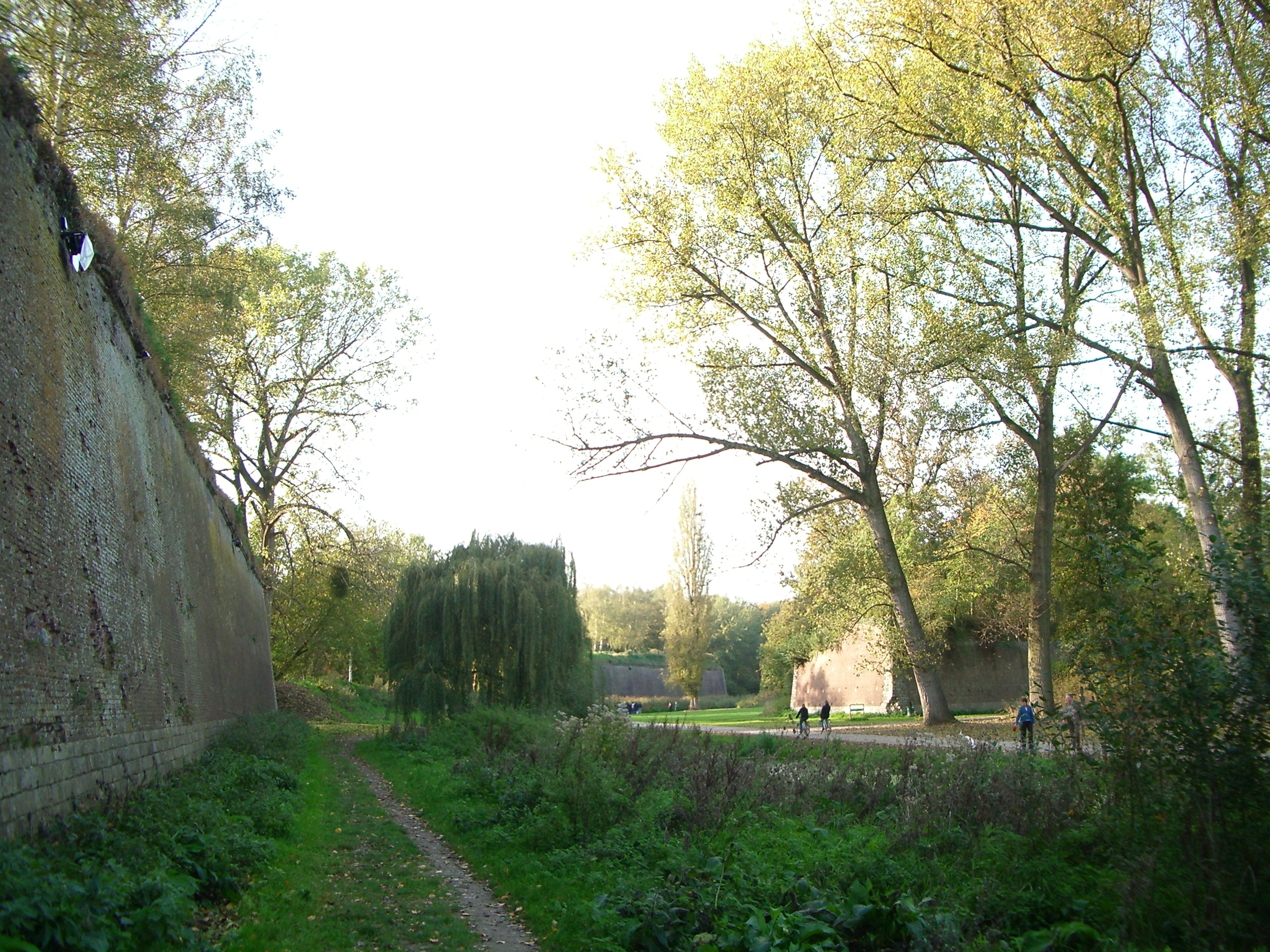 Ditch of Vauban's citadel in Lille, Nord, France